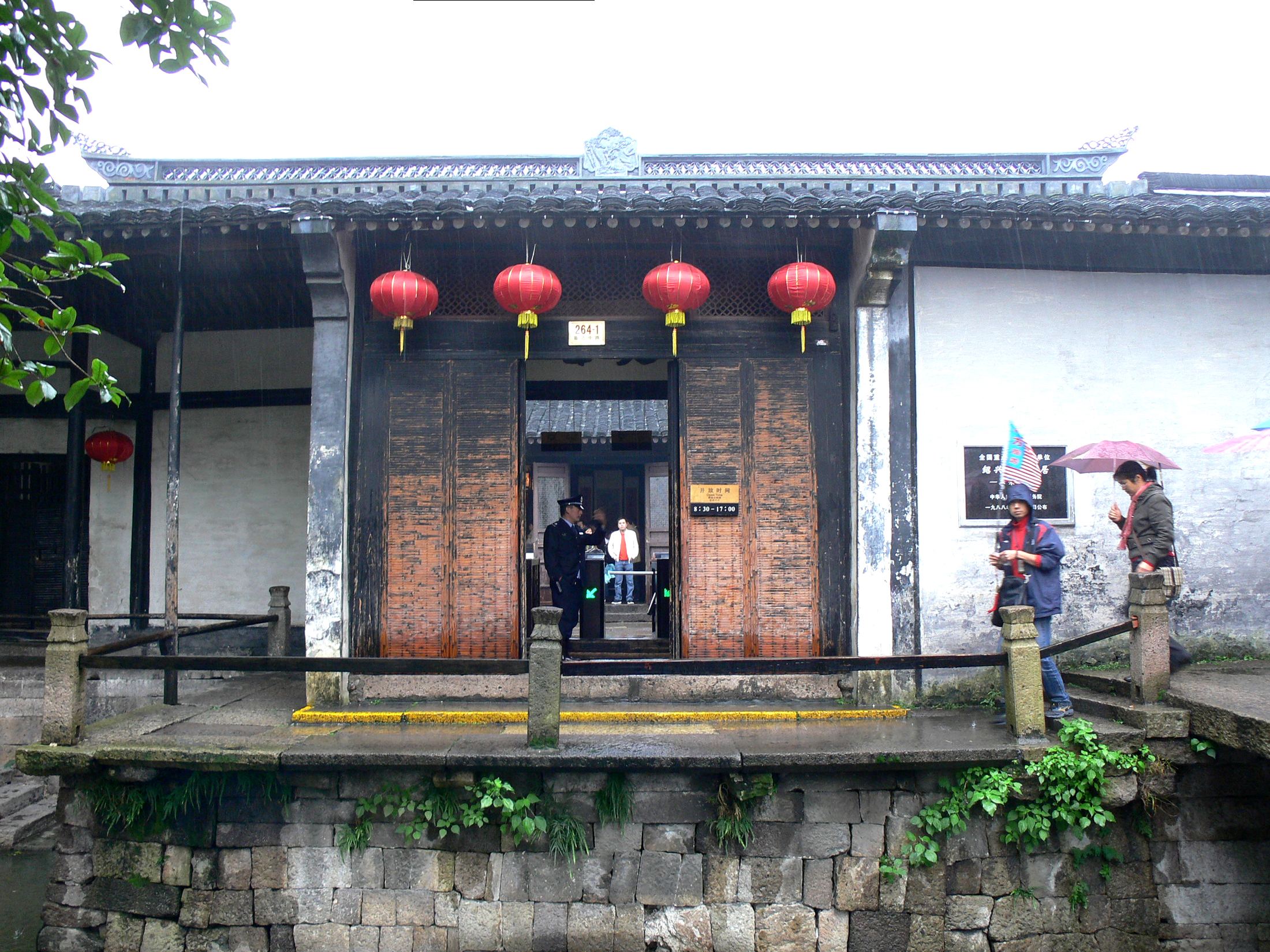 Former residence of Luxun in Shaoxin